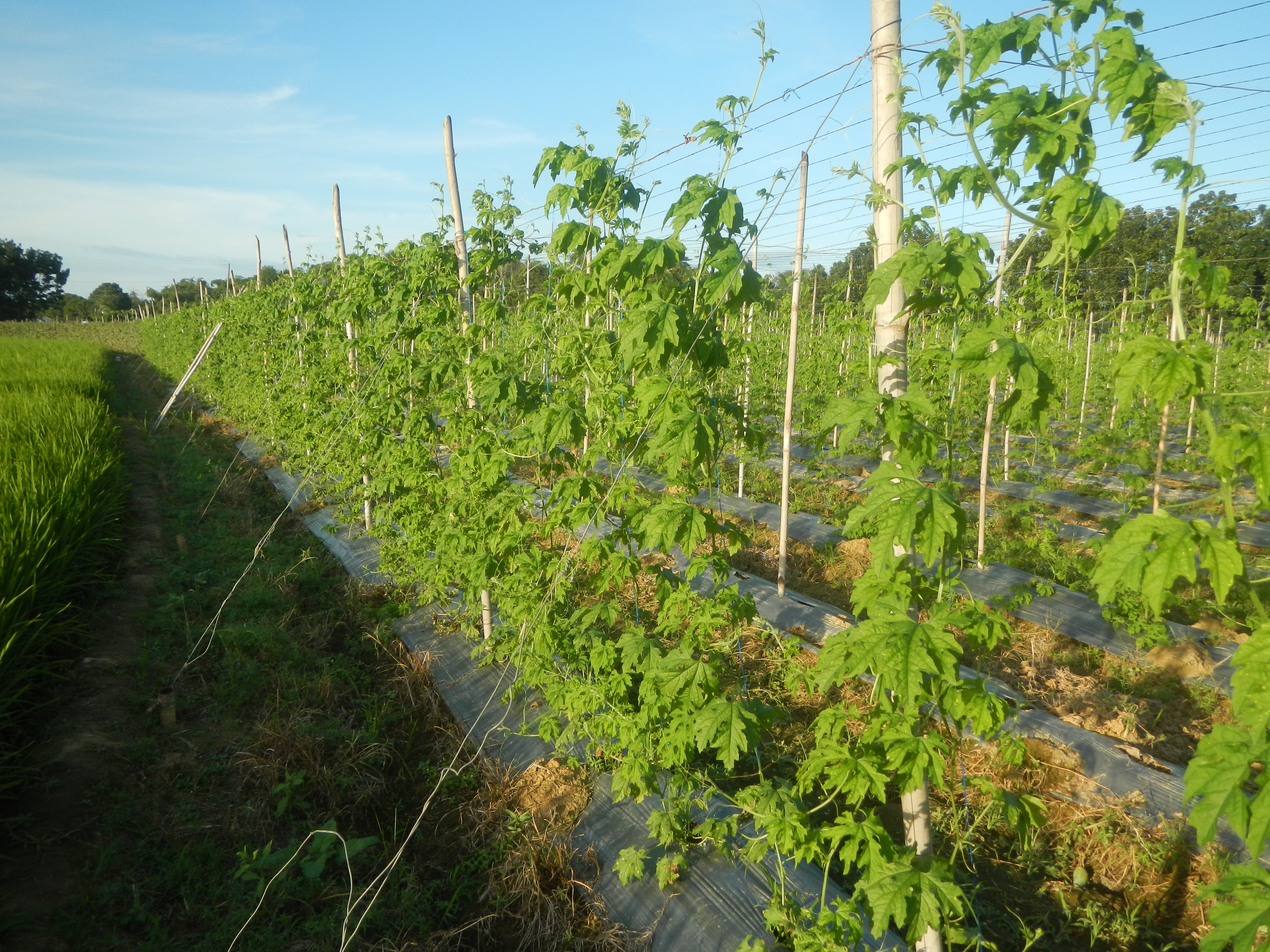 Momordica charantia plantations in Diliman II, San Rafael, Bulacan Flood control and River walls-Slope Protection (Diliman II, San Rafael, Bulacan) Grasslands, paddy and vegetable fields in Diliman I & Diliman II, San Rafael, Bulacan Barangays Diliman I 15.0061, 120.9838 Diliman II 15.0189, 120.9772, San Rafael, Bulacan (Note: Judge Florentino Floro, the owner, to repeat, Donor Florentino Floro of all these photos hereby donate gratuitously, freely and unconditionally all these photos to and for Wikimedia Commons, exclusively, for public use of the public domain, and again without any condition whatsoever).